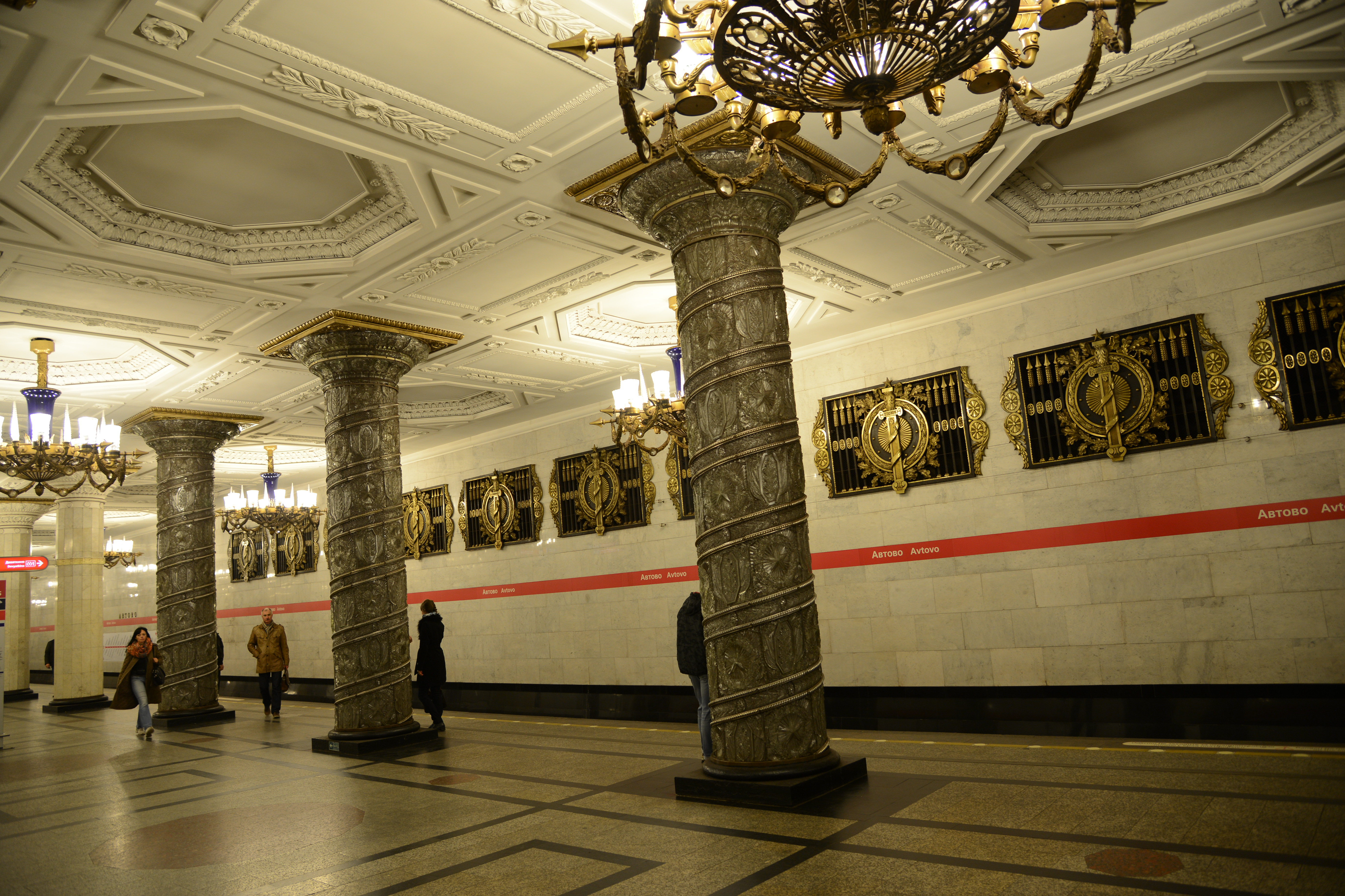 Avtovo (Russian: А́втово) is a station on the Kirovsko-Vyborgskaya Line of the Saint Petersburg Metro. It was designed by architect Ye.A. Levinson and opened as part of the first Metro line on November 15, 1955. Avtovo's unique and highly ornate design features columns faced with ornamental glass manufactured at the Lomonosov factory. Although glass was originally supposed to be used on all of the columns in the station, white marble was substituted on some due to time constraints. This marble was supposed to be temporary, but it has never been replaced. The walls are faced with white marble and adorned on the north side by a row of ornamental ventilation grilles. At the end of the platform is a mosaic by V.A. Voronetskiy and A.K. Sokolov dedicated to the theme of the Leningrad Blockade during the second world war. Unlike the other stations on the first line, Avtovo is a shallow-level station and was constructed using the cut and cover method. It belongs to the shallow column class of underground stations